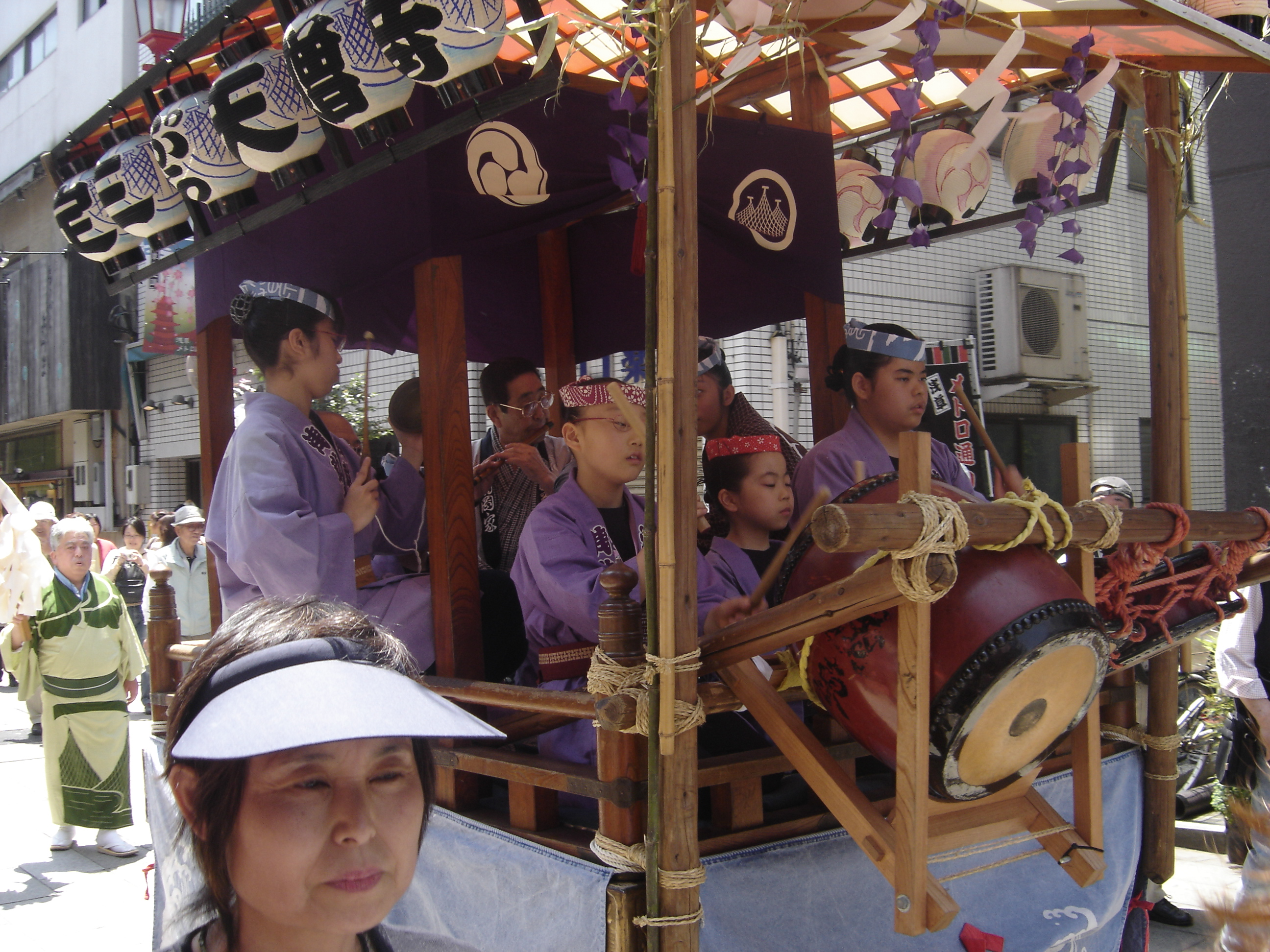 A small float carries musicians through the Asakusa streets during Sanja Matsuri.